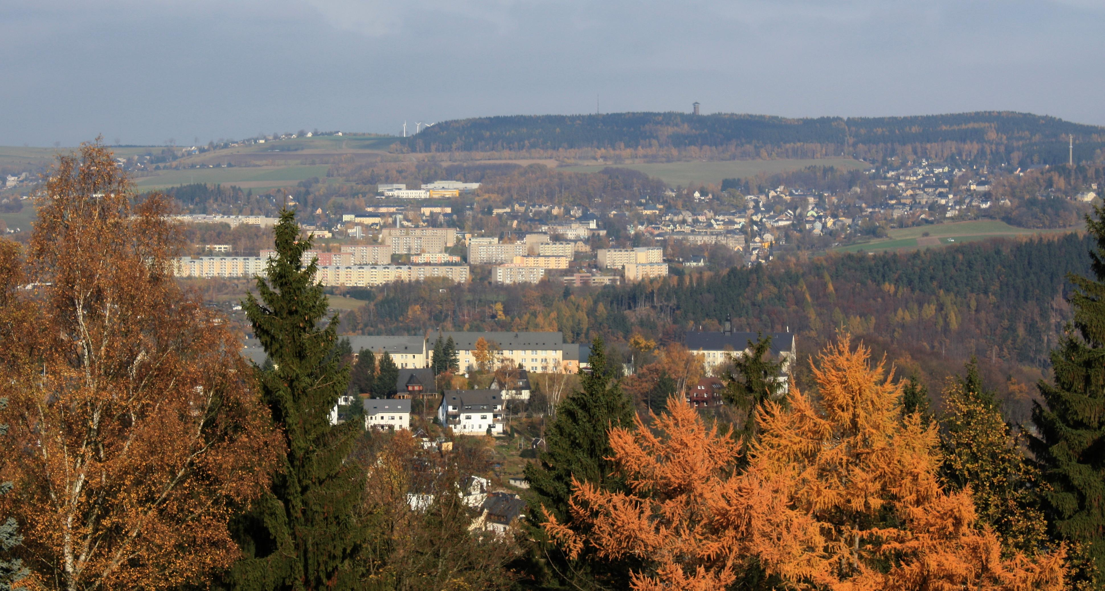 Sonnenleithe, Schwarzenberg, View from Waldbühne.